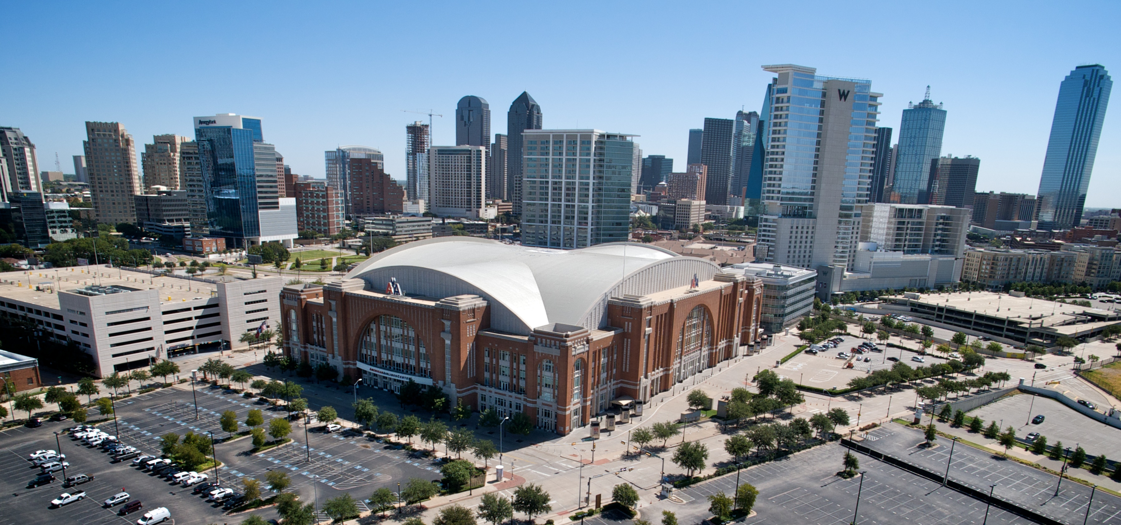 Those who know the story, I'm sure the statute of limitations have passed... Image was captured by a camera suspended by a kite line. Kite Aerial Photography (KAP) 7' Rokkaku